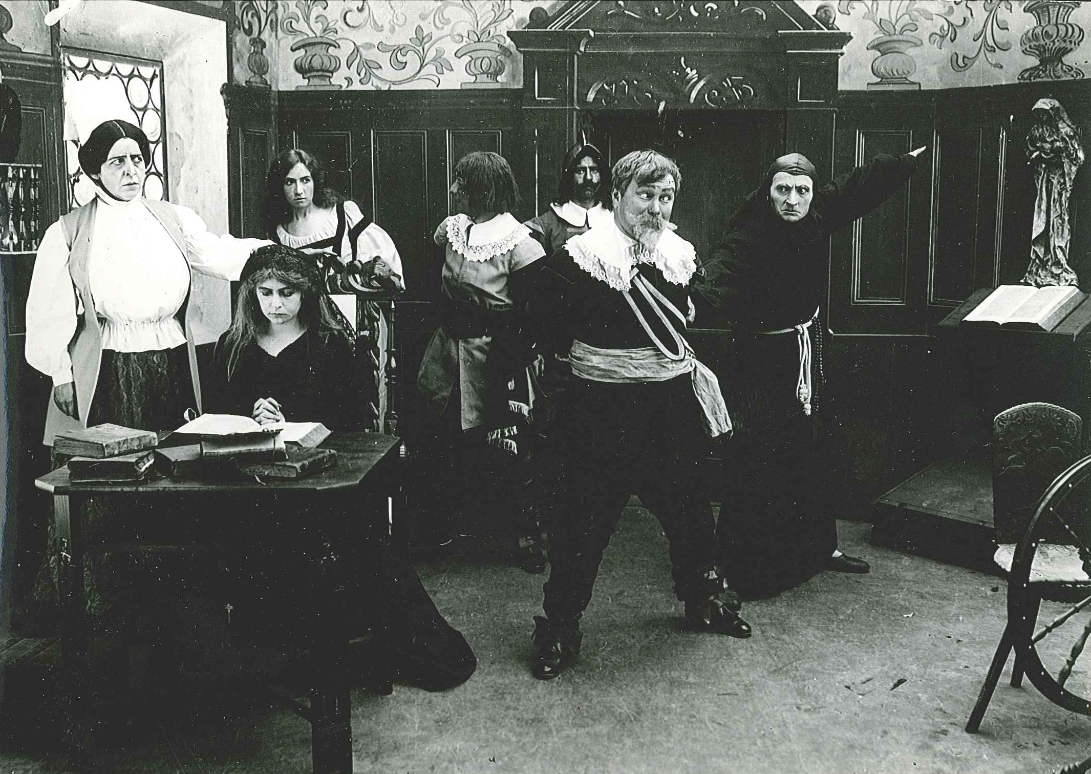 Scene from Regina von Emmeritz och Konung Gustaf II Adolf (1910), one of the first feature films shot in Sweden. Actors include Gerda André (seated at the table to the left), Emile Stiebel (in the middle as king Gustavus Adolphus of Sweden) and Carl Browallius (as the monk to his right).